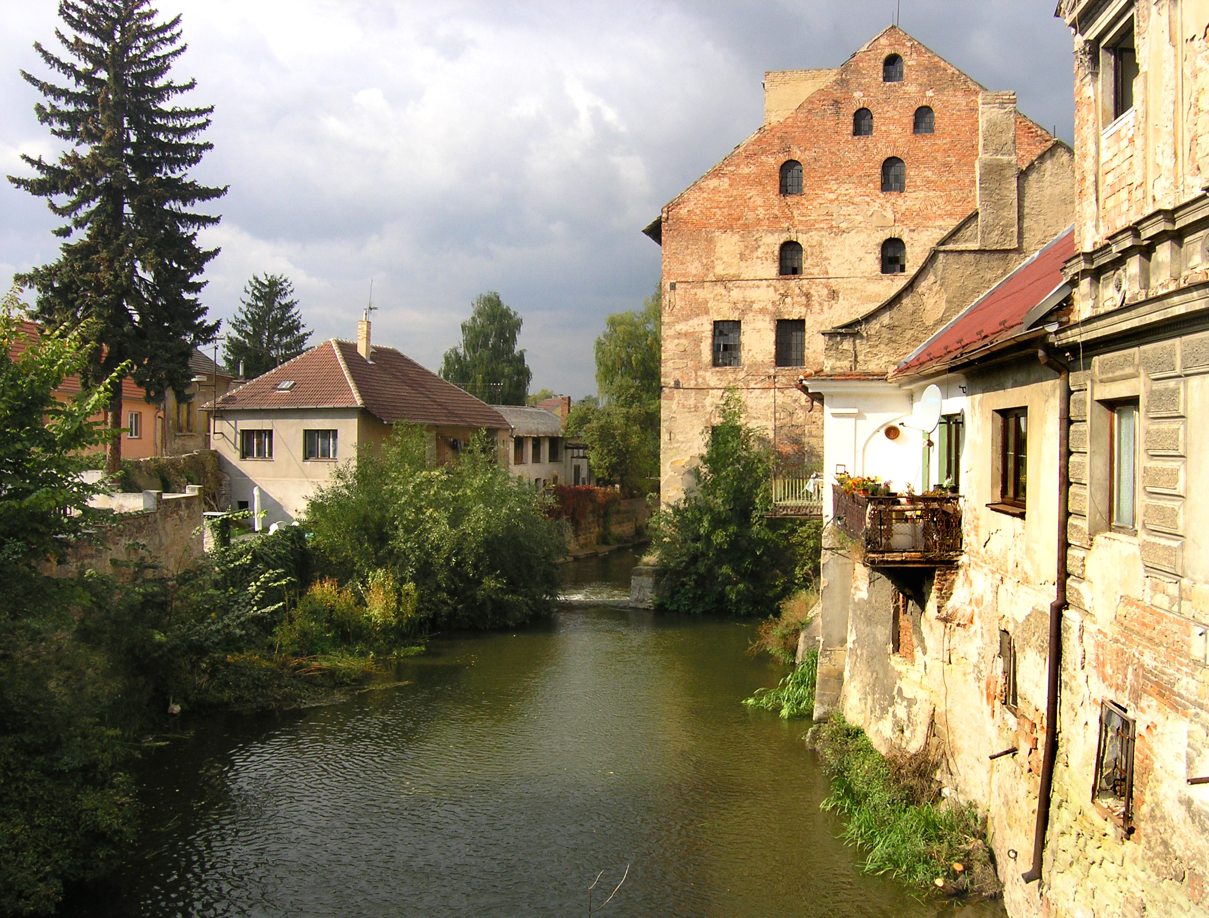 Millhouse by Mlýnský creek in Kostelec nad Labem, Czech Republic